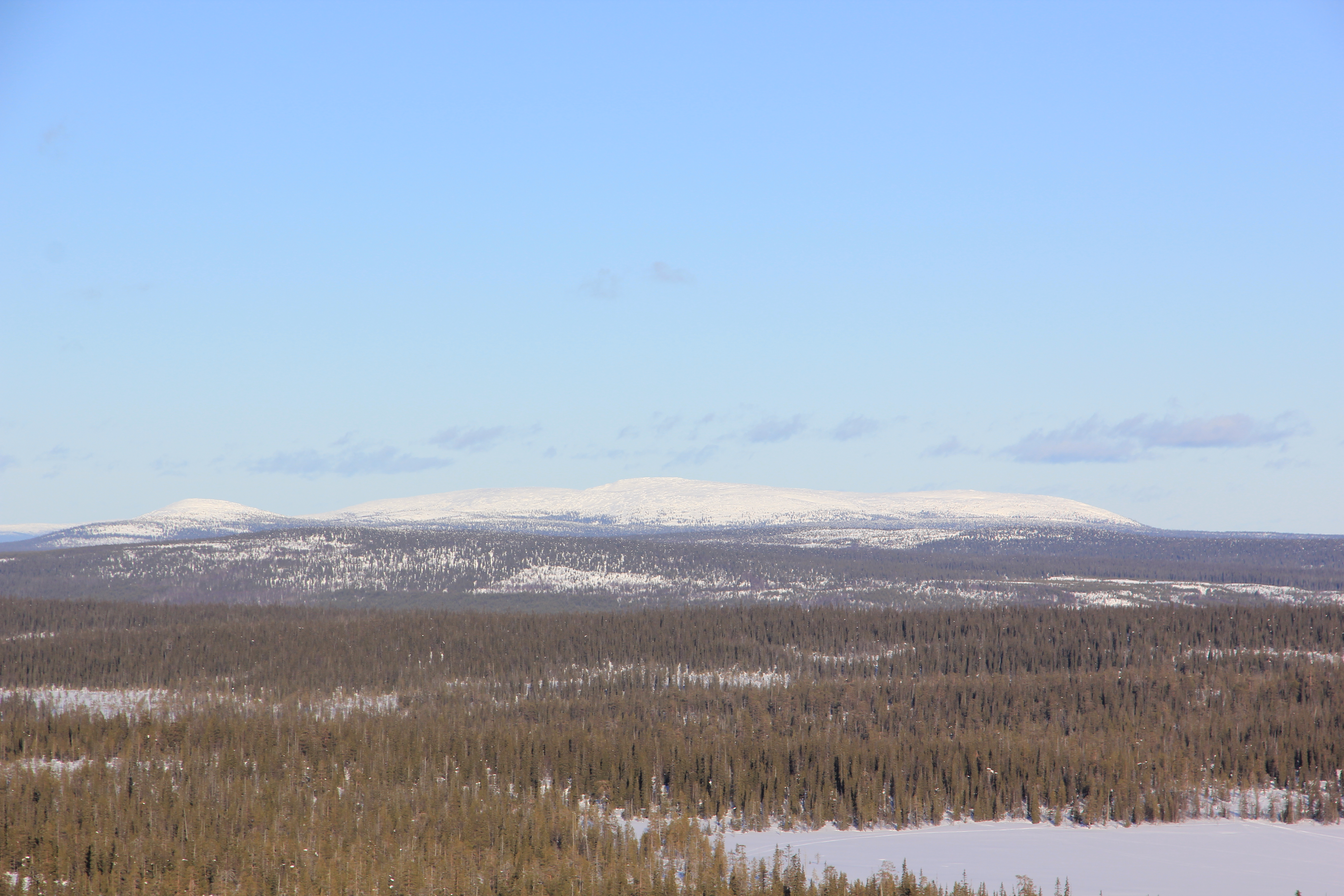 View from Finland, Sallatunturit of Salla to the east, where Sotitunturi, Saukkotunturi, fi: Rohmoiva and fi: Sallatunturi in the Alakurtti rural settlement, Russia.